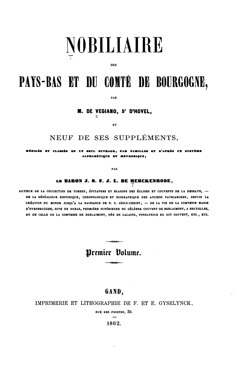 Title page.